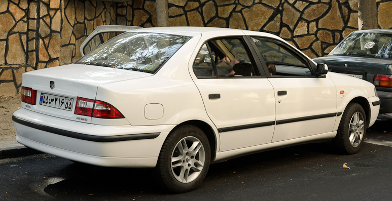 Samand car in Qalamestan street, Valiasr, Teheran